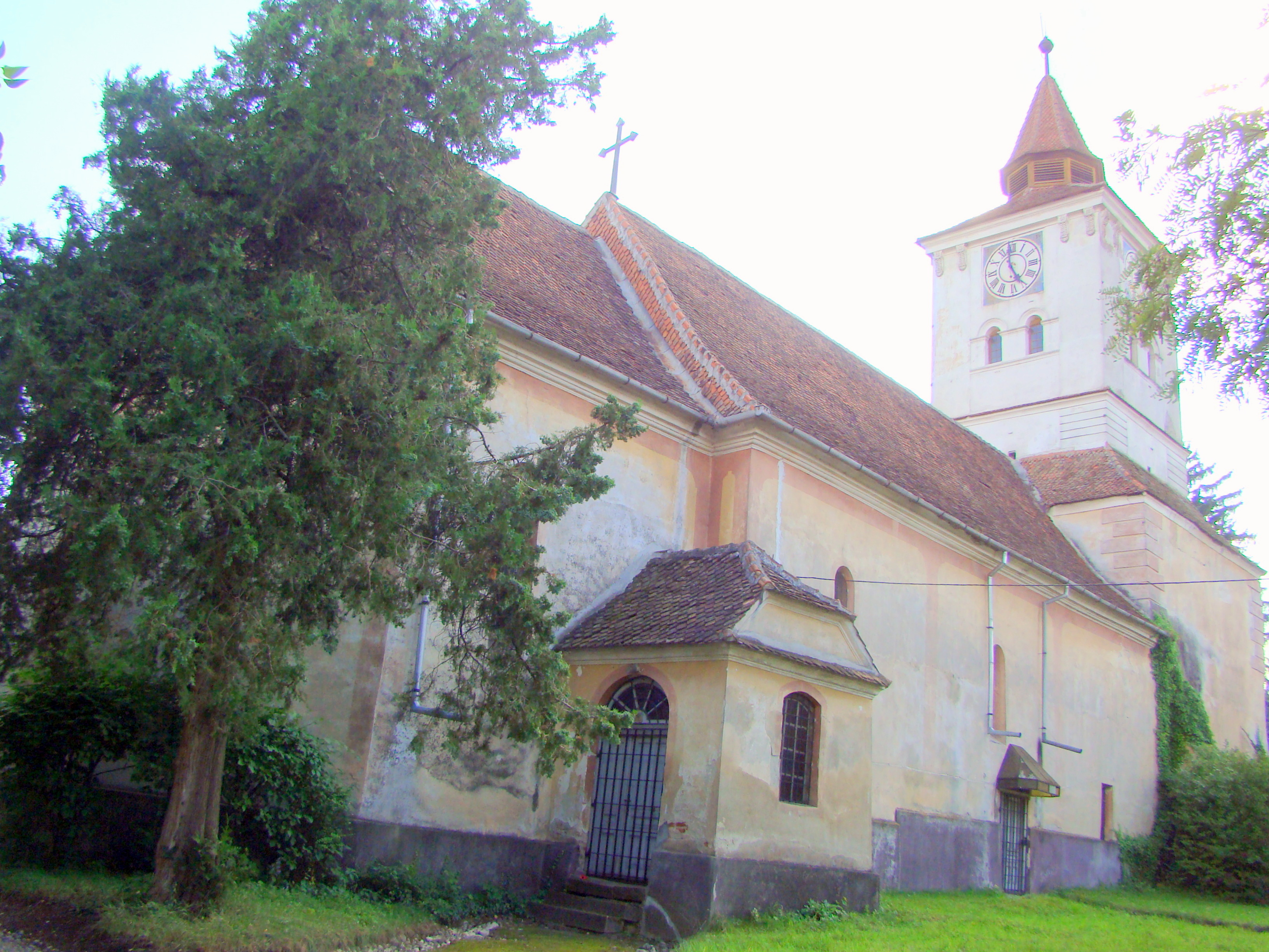 Fortified church in Măieruș, Brașov County, Romania